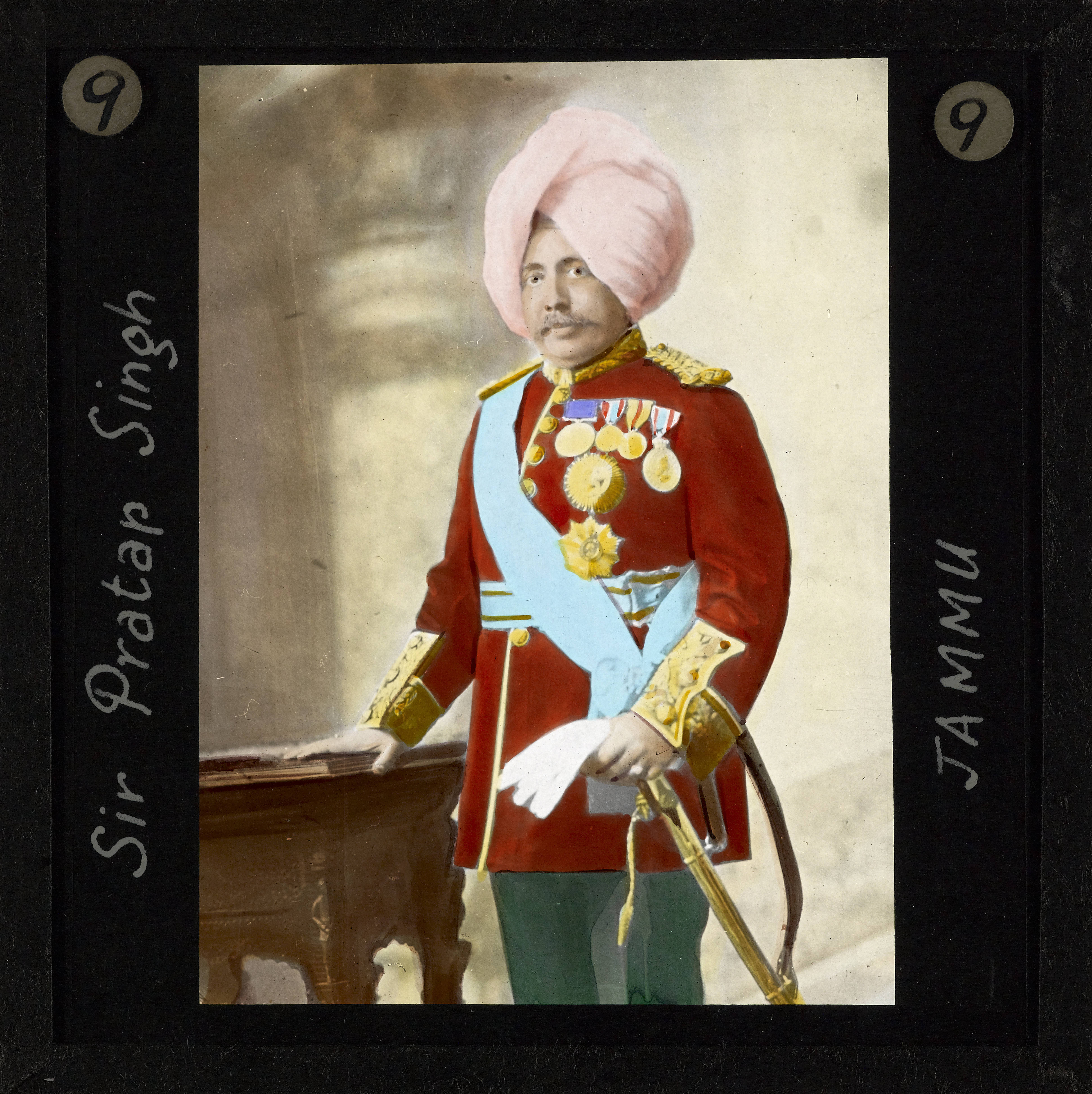 Sir Pratap Singh (1848-1925), Jammu, India, ca.1890 Portrait photograph of Sir Pratap Singh (1848-1925) the Maharaja of Jammu and Kashmir, and head of the Jamwal Rajput clan from 1885-1925. He is pictured in full military dress and is decorated with a number of medals.; This belongs to a series of Church of Scotland Foreign Missions Committee lantern slides relating to Jammu City, which is also known as the "City of Temples". A mission station occupied by Church of Scotland missionaries was founded here in the late 19th/early 20th century. Jammu is also one of the three administrative divisions within Jammu and Kashmir, the northernmost state in India. Photographer: Unknown Filename: imp-cswc-GB-237-CSWC47-LS10-009.tif Coverage date: circa 1890 Part of collection: International Mission Photography Archive, ca.1860-ca.1960 Geographic subject (region): Jammu and Kashmir Type: images Part of subcollection: Photographs from the Centre for the Study of World Christianity, University of Edinburgh, U.K., ca.1900-ca.1940s Repository name: Centre for the Study of World Christianity Archival file: impaunpub_Volume7/1725.url Repository address: The University of Edinburgh School of Divinity, New College, Mound Place, Edinburgh EH1 2LX, United Kingdom Geographic subject (country): India Format (aacr2): 1 lantern slide : 8 x 8 cm. Geographic subject (continent): Asia Rights: Contact the repository for details. Part of series: In the Temple City of Jammu LS10 Repository Subject (lcsh Keyword): Heads of state Date created: circa 1890 Publisher (of the digital version): University of Southern California. Libraries Subject (aat genre): portraits Format (aat): lantern slides Legacy record ID: impa-m69233 Access conditions: File: GB 237 CSWC47/LS10/9